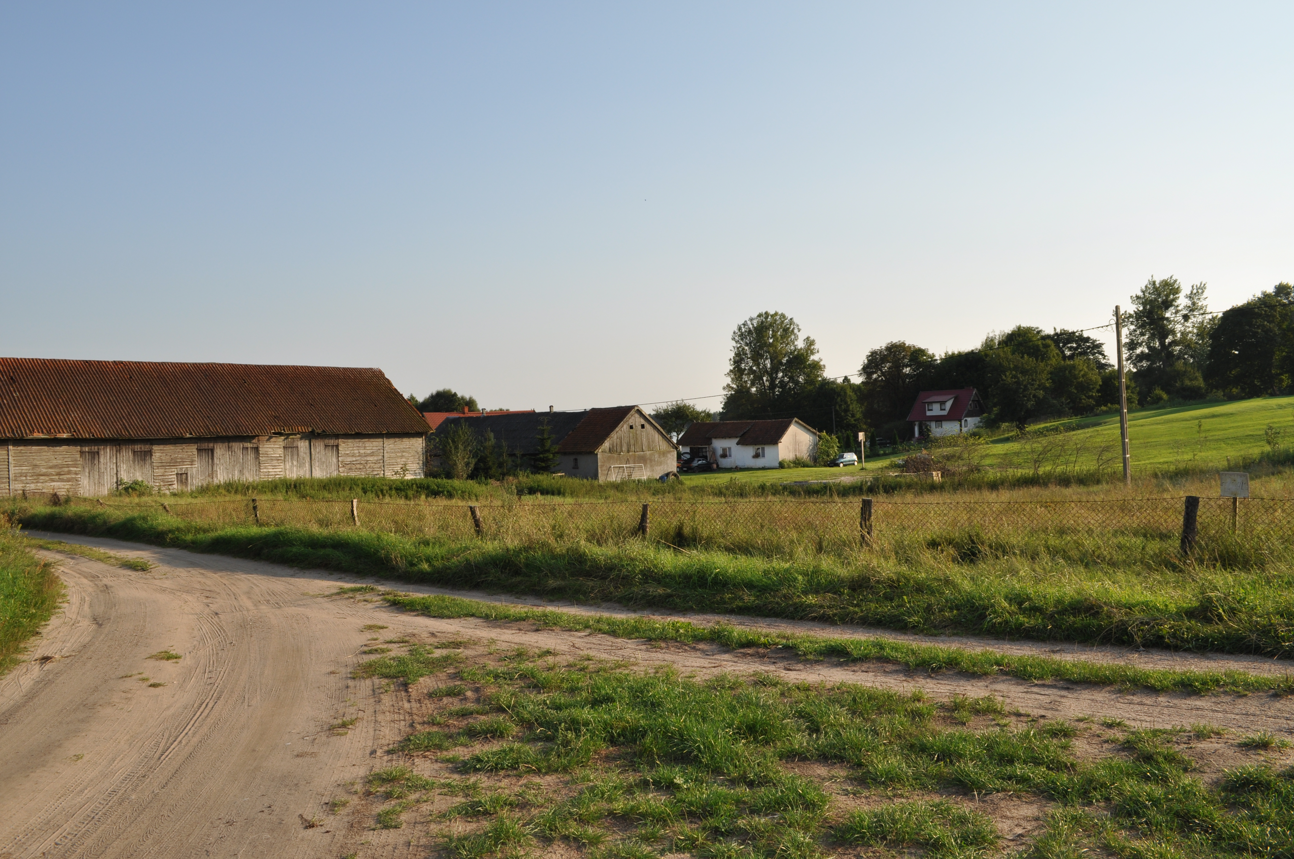 Miłuki - a village in the administrative district of Gmina Pasym, within Szczytno County, Warmian-Masurian Voivodeship, in Poland